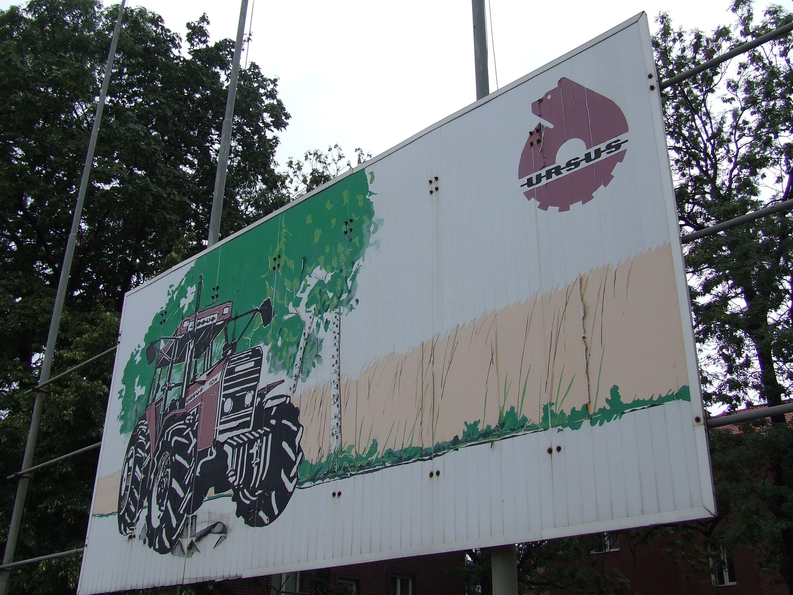 Machine Factory Ursus in Warsaw billboard